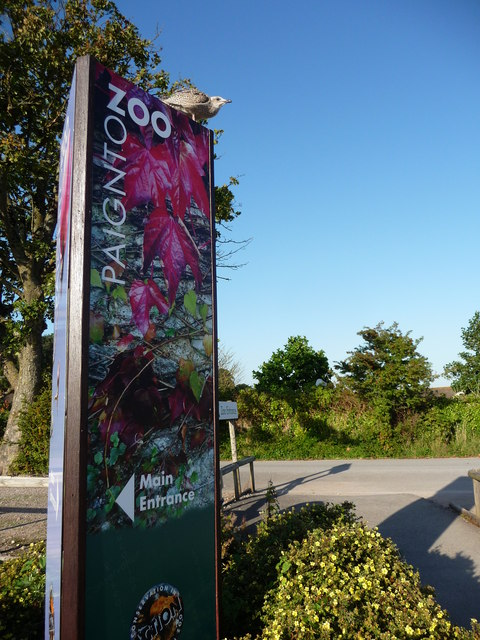 Paignton : Paignton Zoo Sign